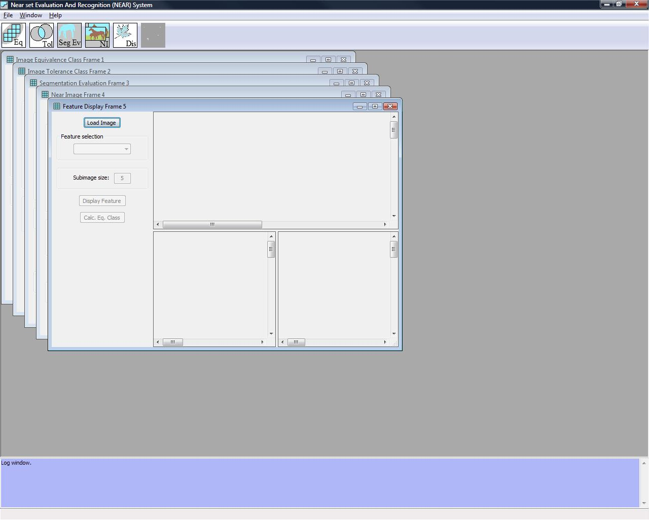 Screen shot of the NEAR system GUI